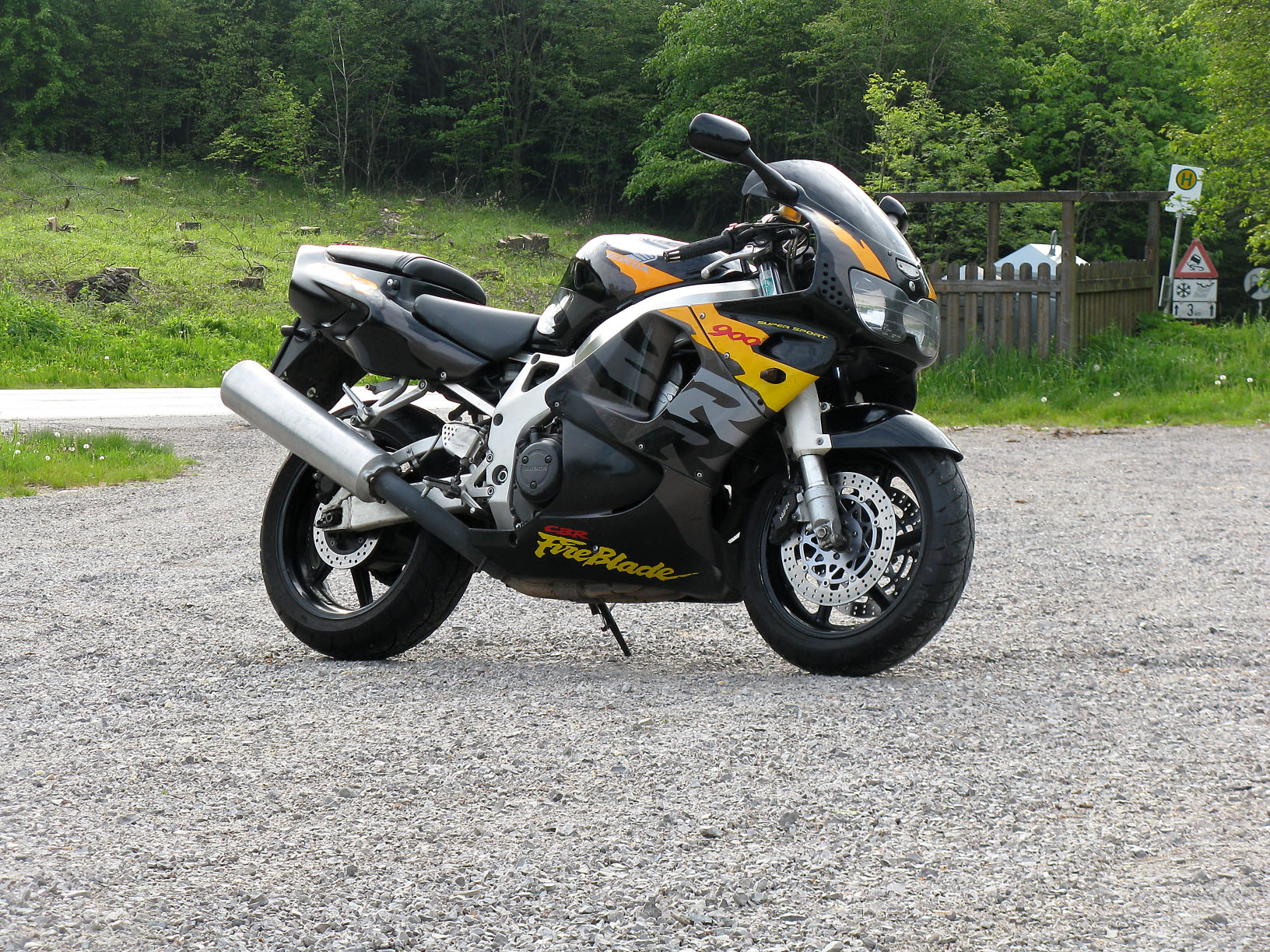 Honda CBR 919 RR SC33 Right Side